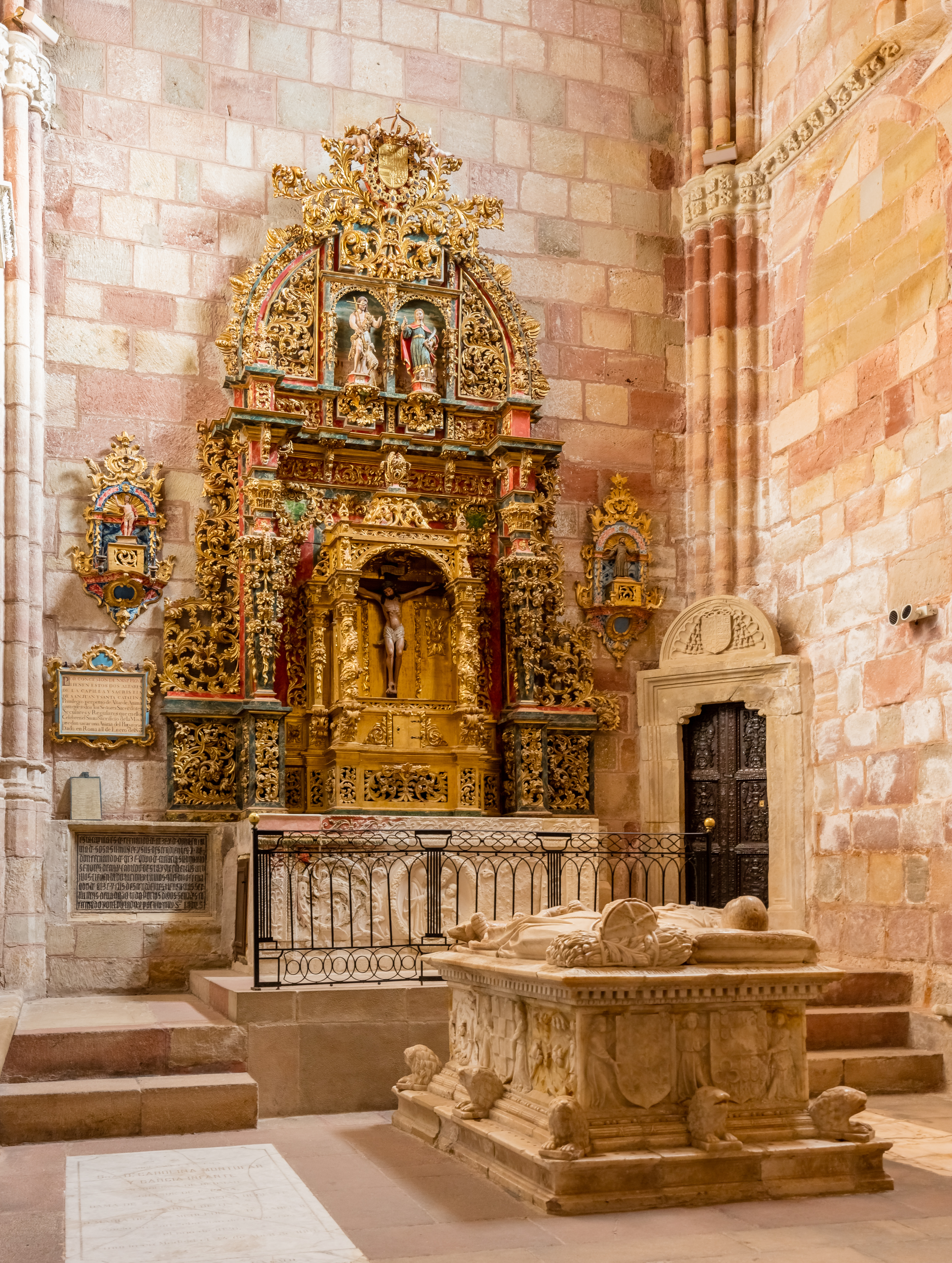 Cathedral of Santa María, Sigüenza, Spain